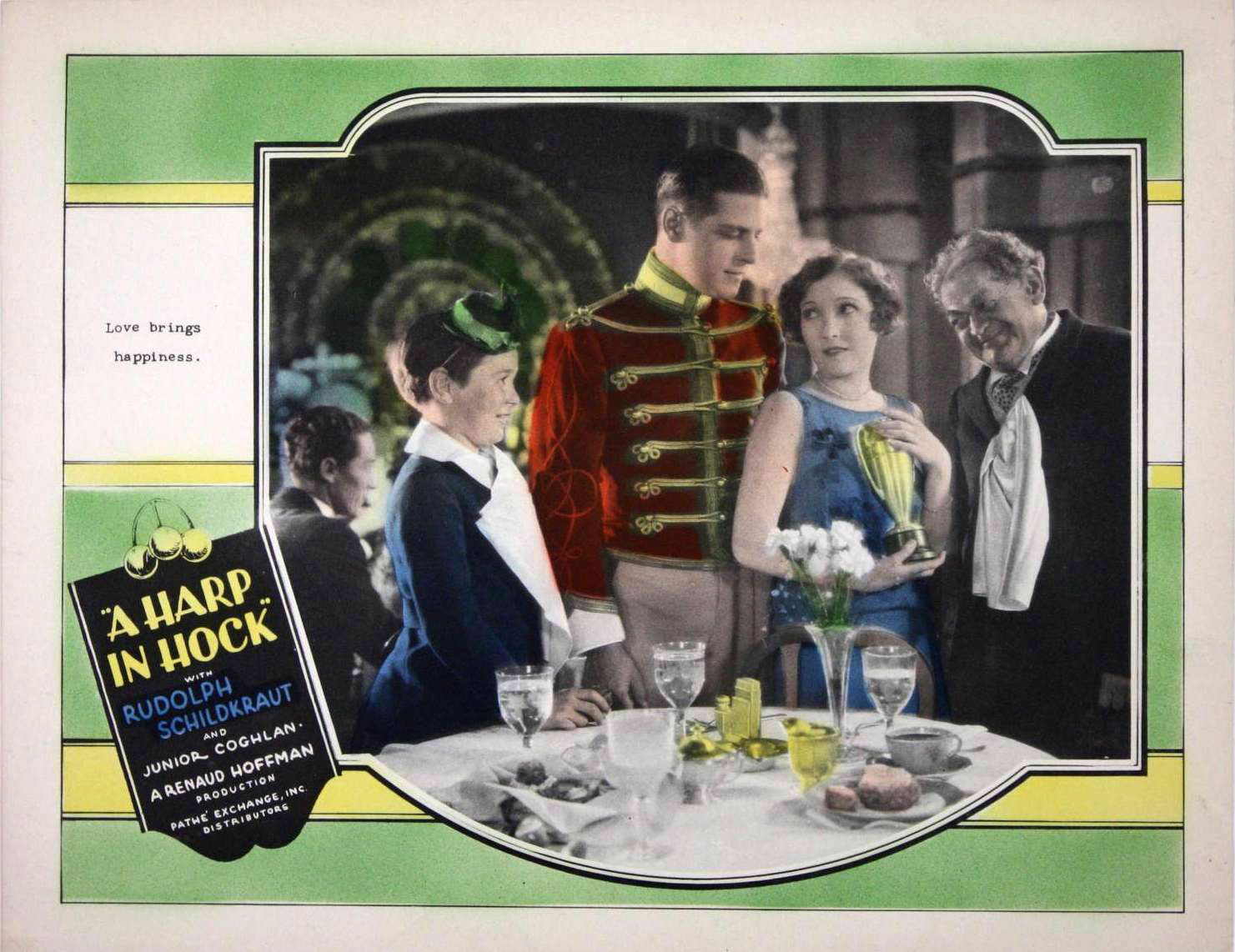 Lobby card for the American melodrama film A Harp in Hock (1927).